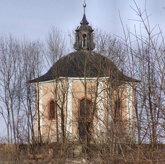 Maria-Hilf-Kapelle in Lambach